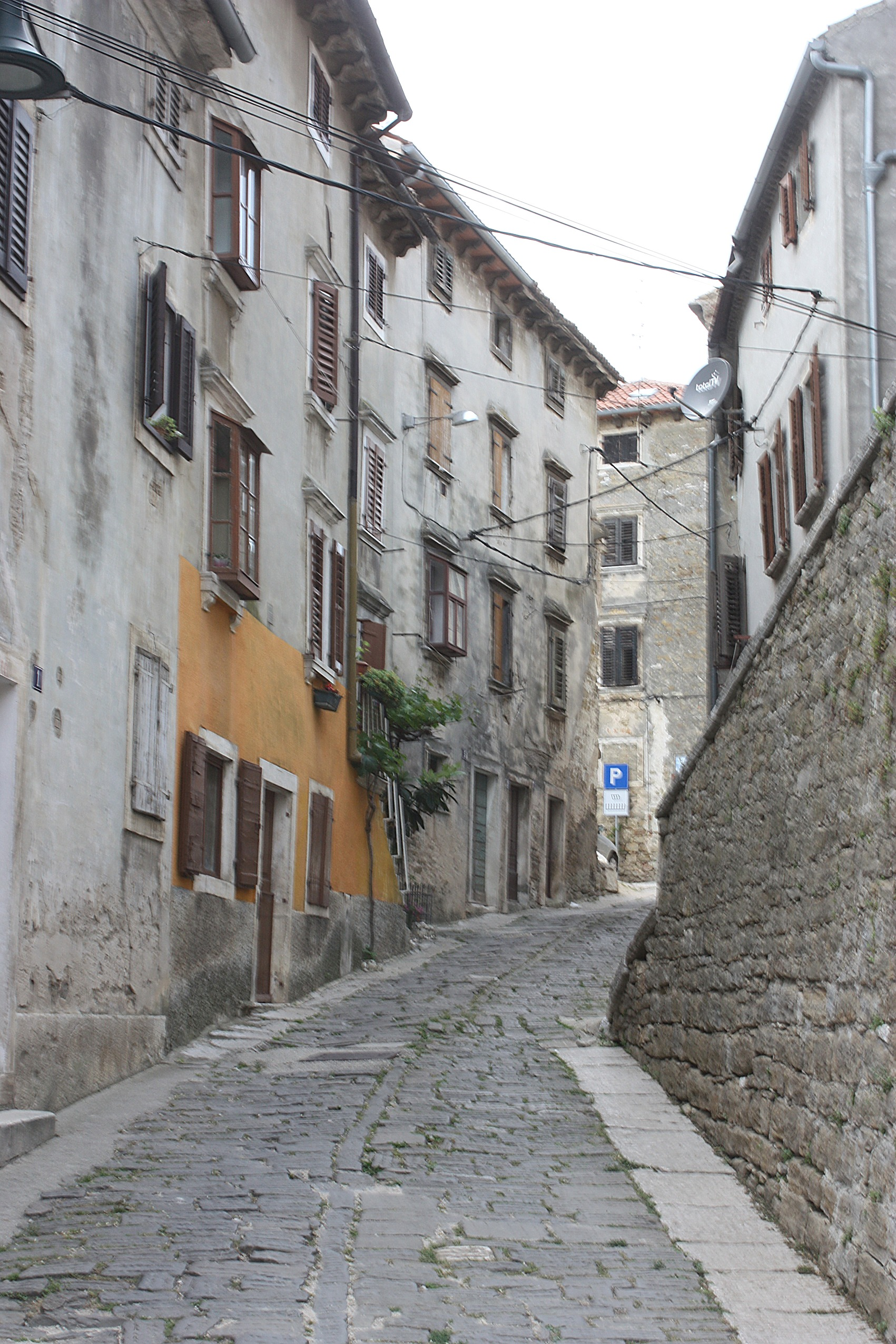 Buje, a picturesque lane